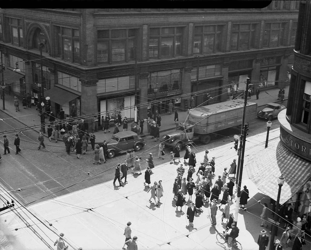 Toronto, Ontario, Canada. Yonge and Queen Streets - Looking South West. The Simpson's department store. The future Hudson's Bay Company store.